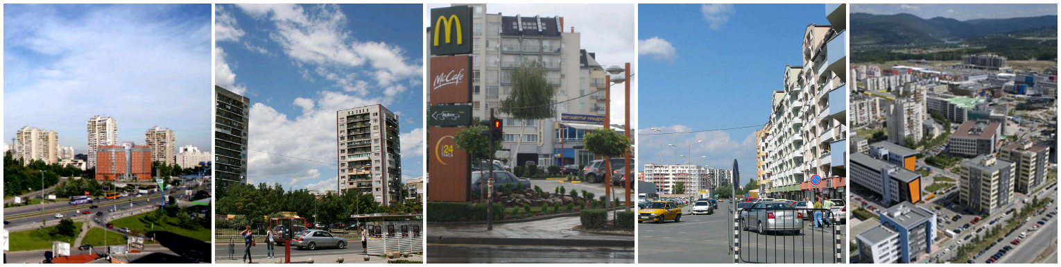 Mladost 1,1A,2,3,4